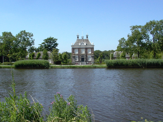 Oostermeer in Ouderkerk aan de Amstel